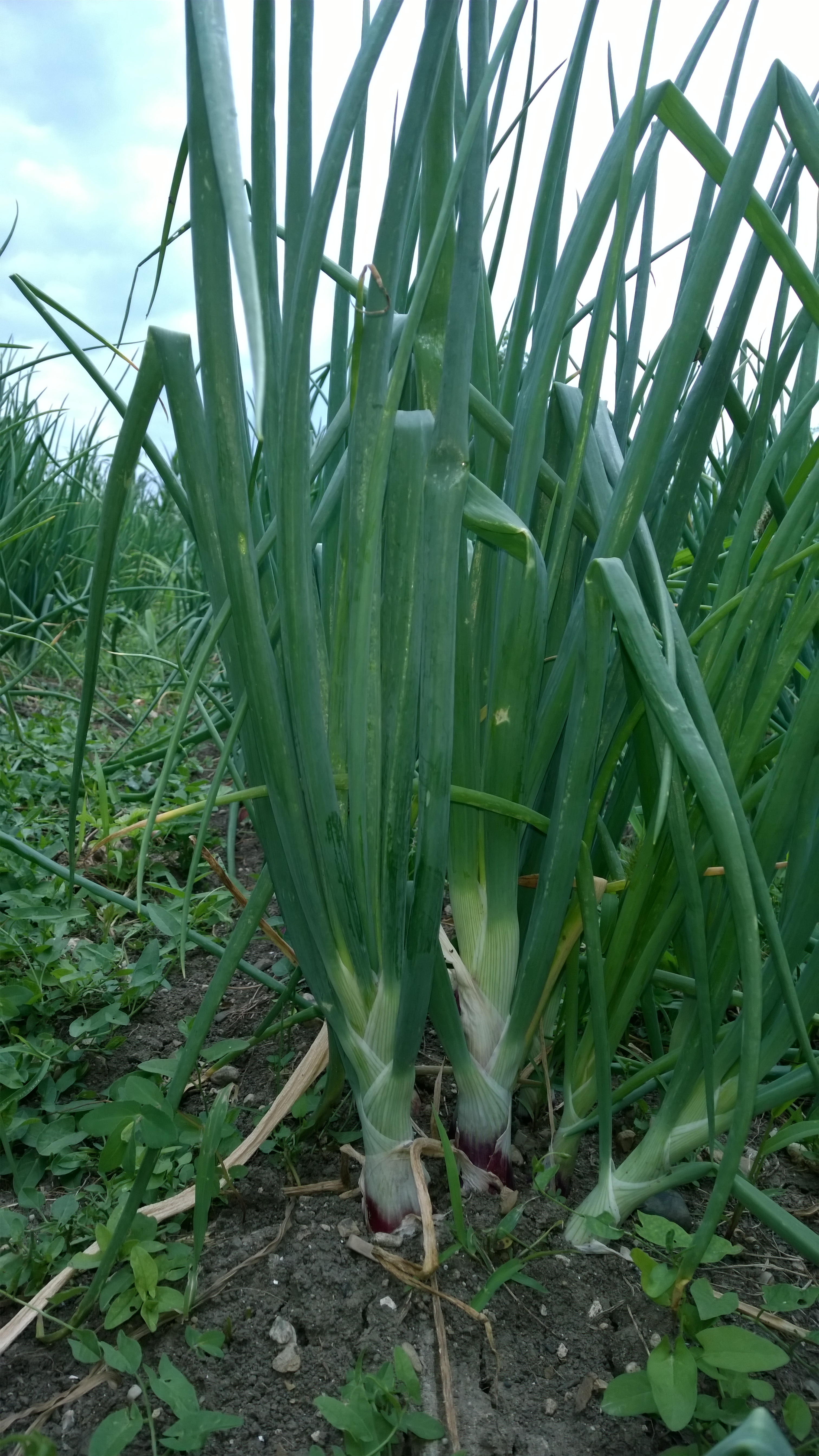 Allium in Georgia (country), Akhmeta municipality